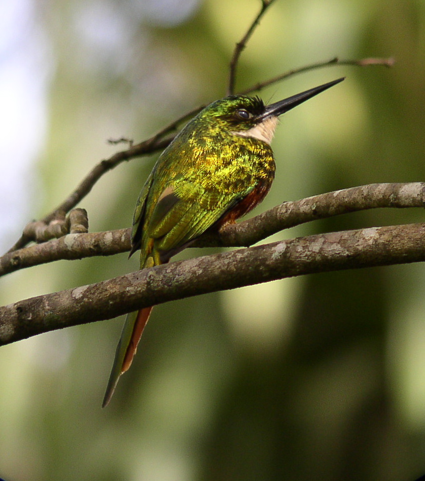 Perched male Rufous-tailed Jacamar (Galbula ruficauda melanogenia), back view, Caracol, Belize